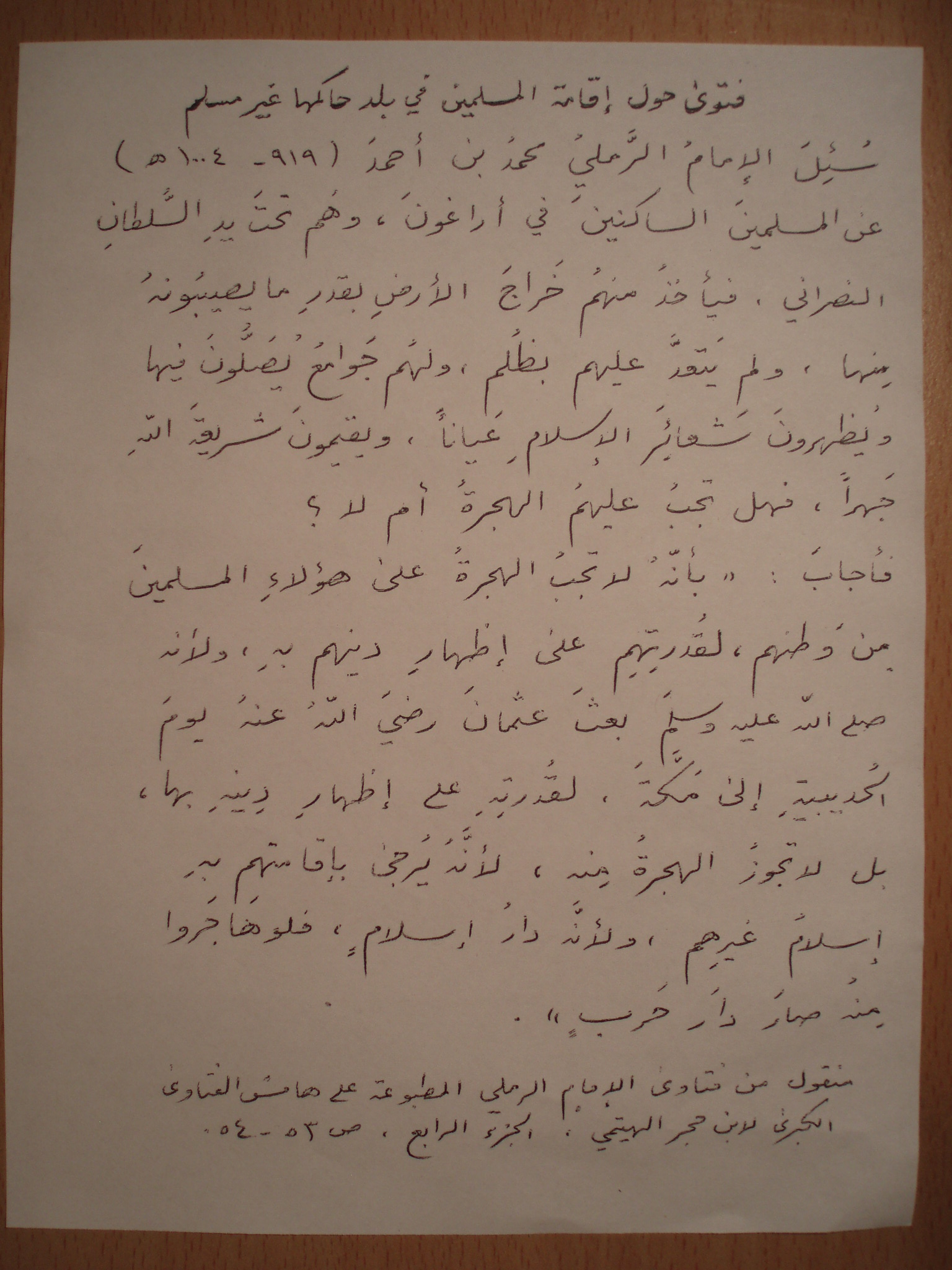 Picture if a handwritten fatwa of Mouaz al-Khatib, former khatib of the Grand Ummayad Mosque in Damascus, Syria, about living as a muslim in a non-moslimcountry. When it's possible to be muslim without repression, it's allowed 20 March 2008